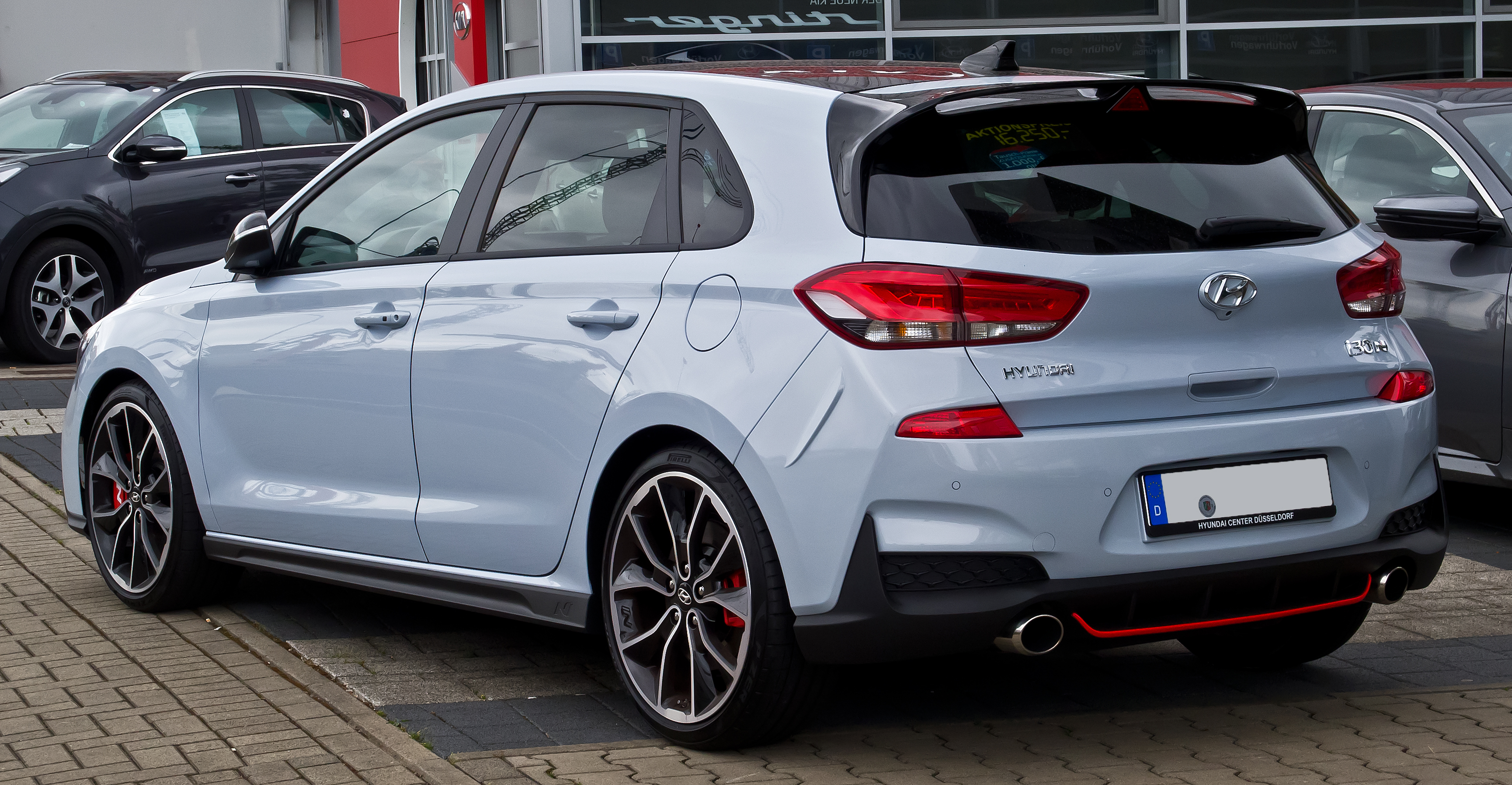 Hyundai i30 N Performance (III)